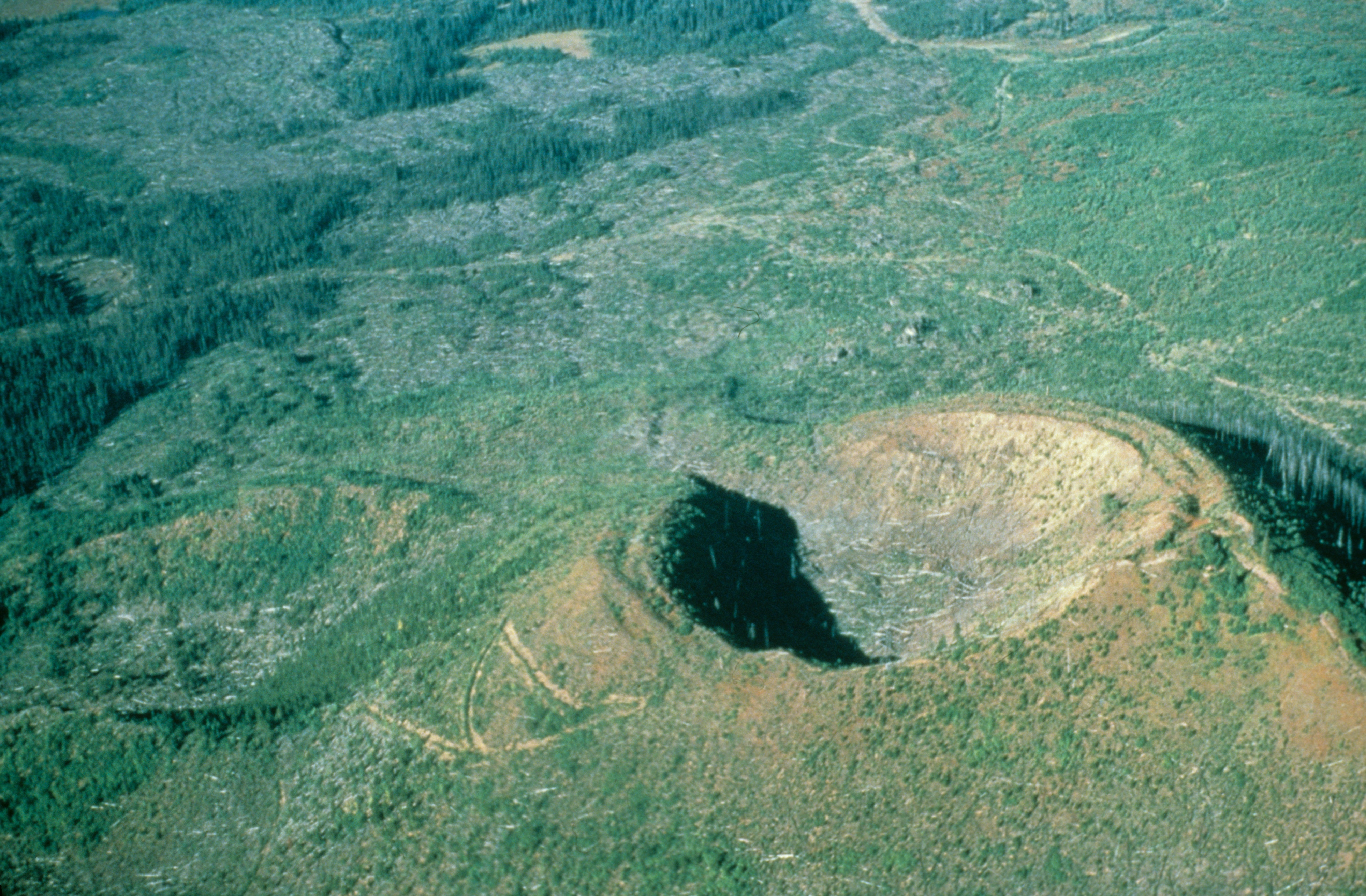 Flourmill Volcano Cone.